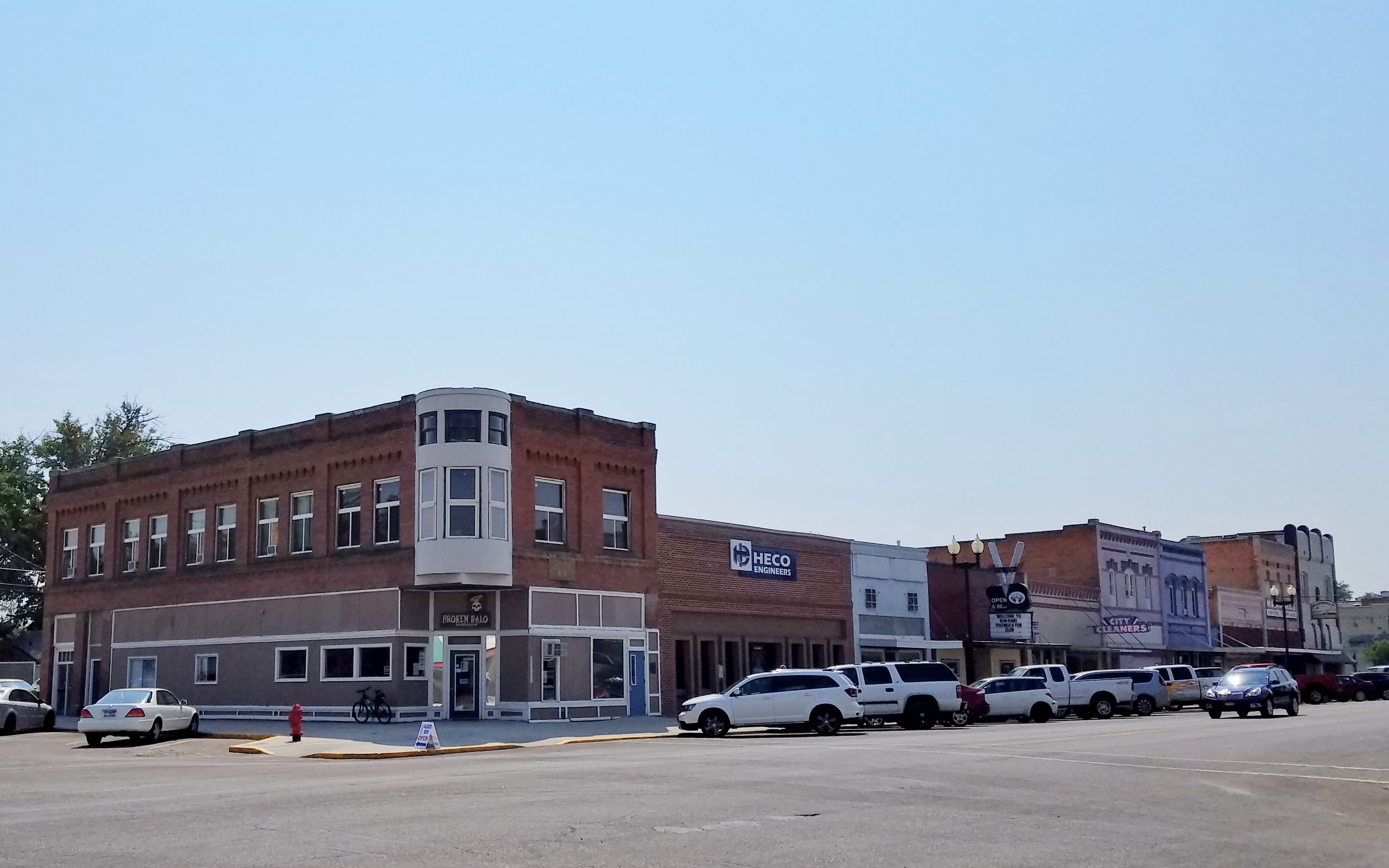 Payette, Idaho, looking southeast at North Main Street and First Avenue North. The Nicolas A. Jacobsen building (1908) is at the corner.